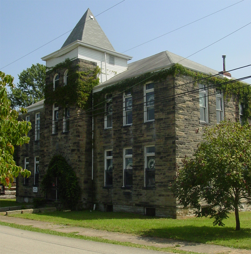 Greensboro Public School in the town of Greensboro in Greene County, Pennsylvania. Photo taken in Sept. 2007.